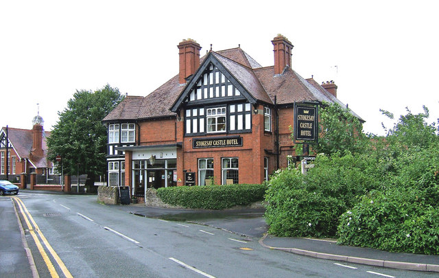 Stokesay Castle Hotel, School Road The hotel was at one time a 19th century coaching inn. For a few years it was known as The Stokesay Castle Inn but has now apparently reverted to the name of Stokesay Castle Hotel. It is just round the corner from the Shropshire Hills Discovery Centre (a must see for Craven Arms visitors). The real Stokesay Castle is about a mile away from the hotel. There is a weblink for the hotel which is still working but as it refers to 2002 prices it appears considerably out of date! It also uses the name of The Stokesay Castle Inn.